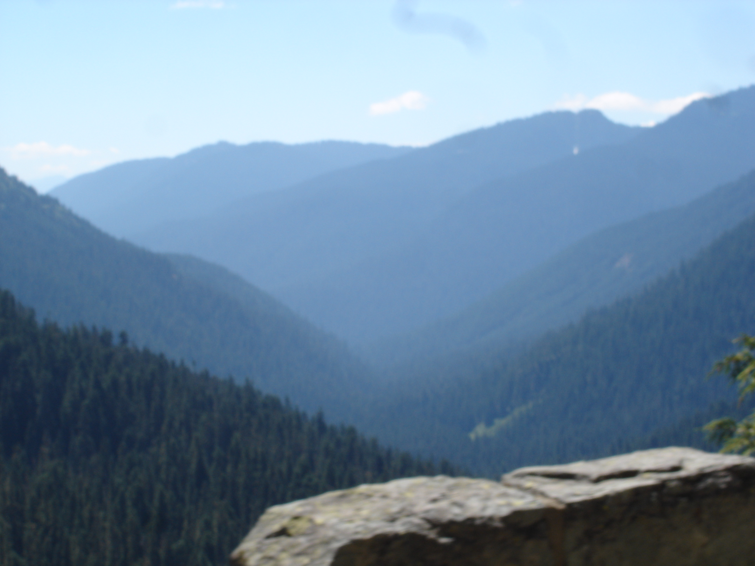 View going up Cayuse Pass